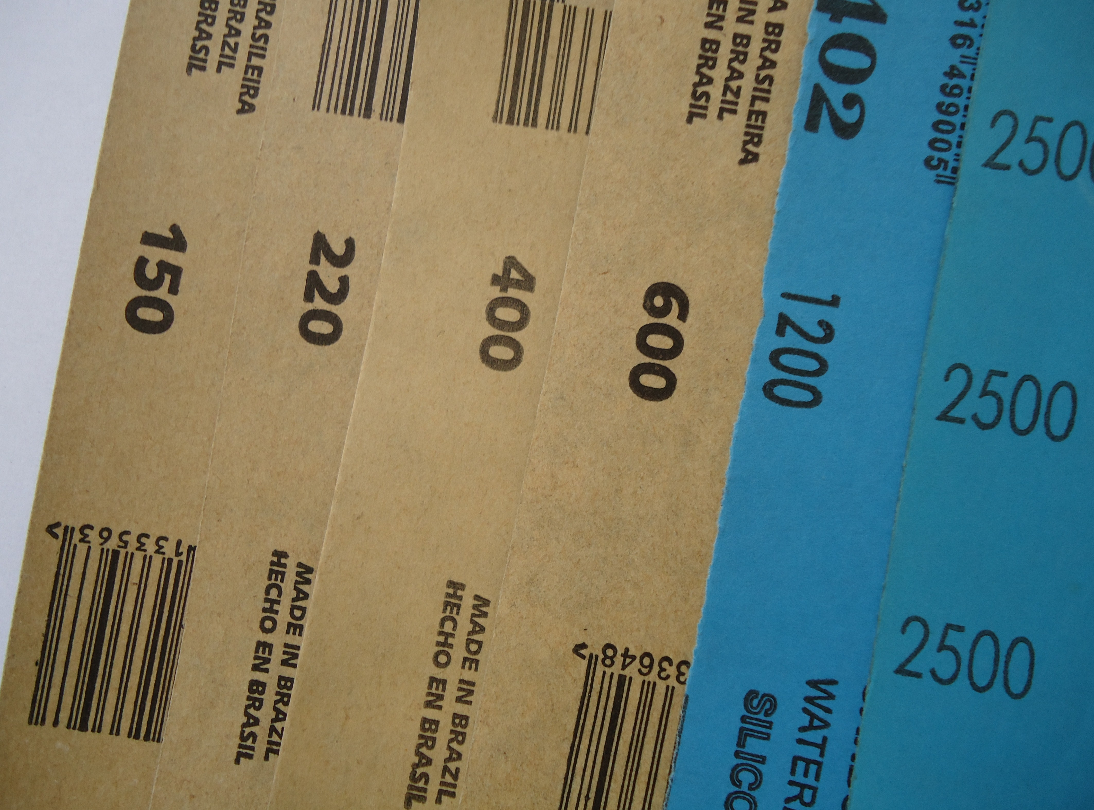 Aluminium oxide sandpapers (backside). Photo: Mauro cateb